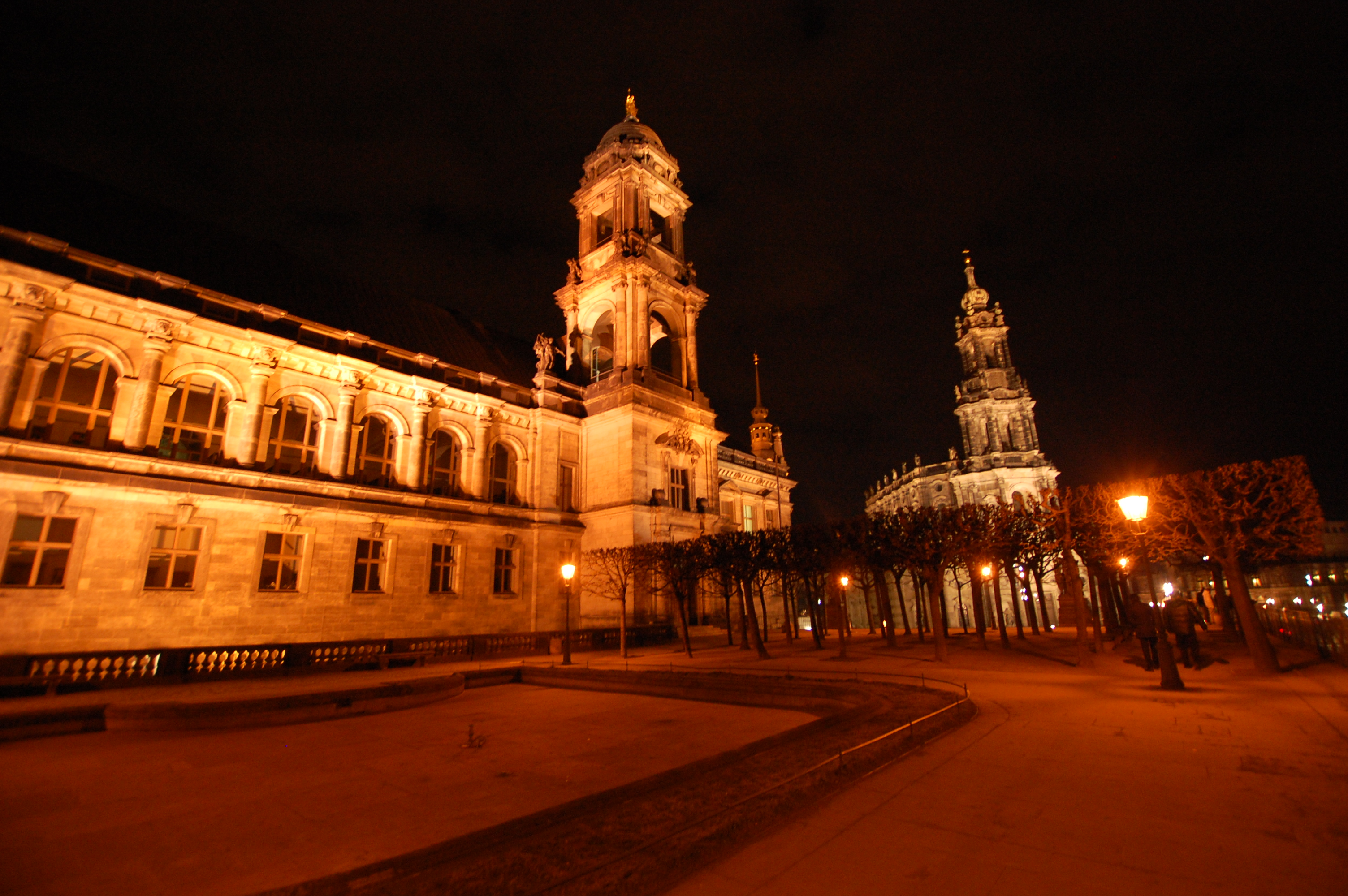 Brühl's Terrace in Dresden